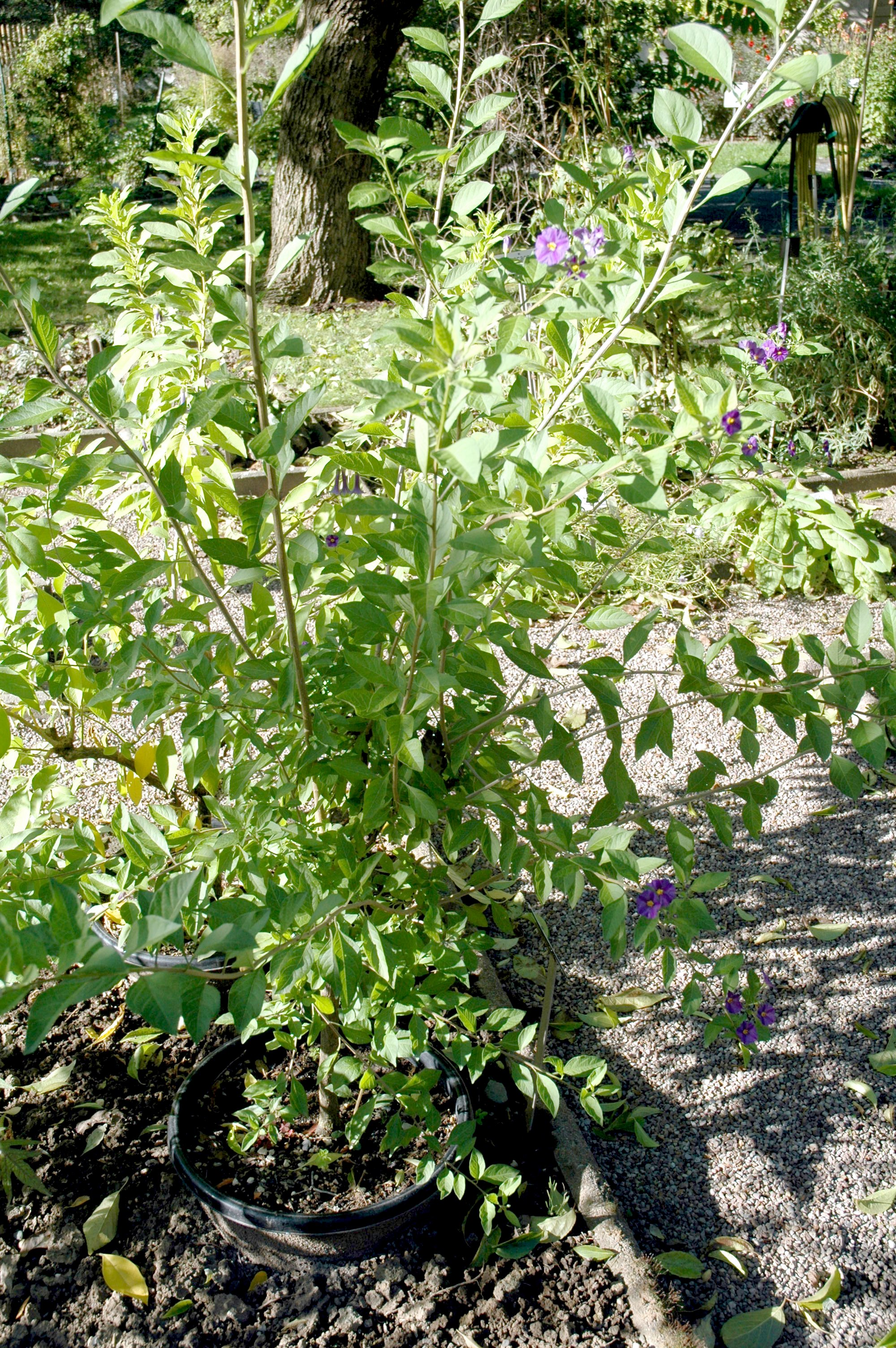 Habit of Lycianthes rantonnei at Jena Botanical Garden, Germany